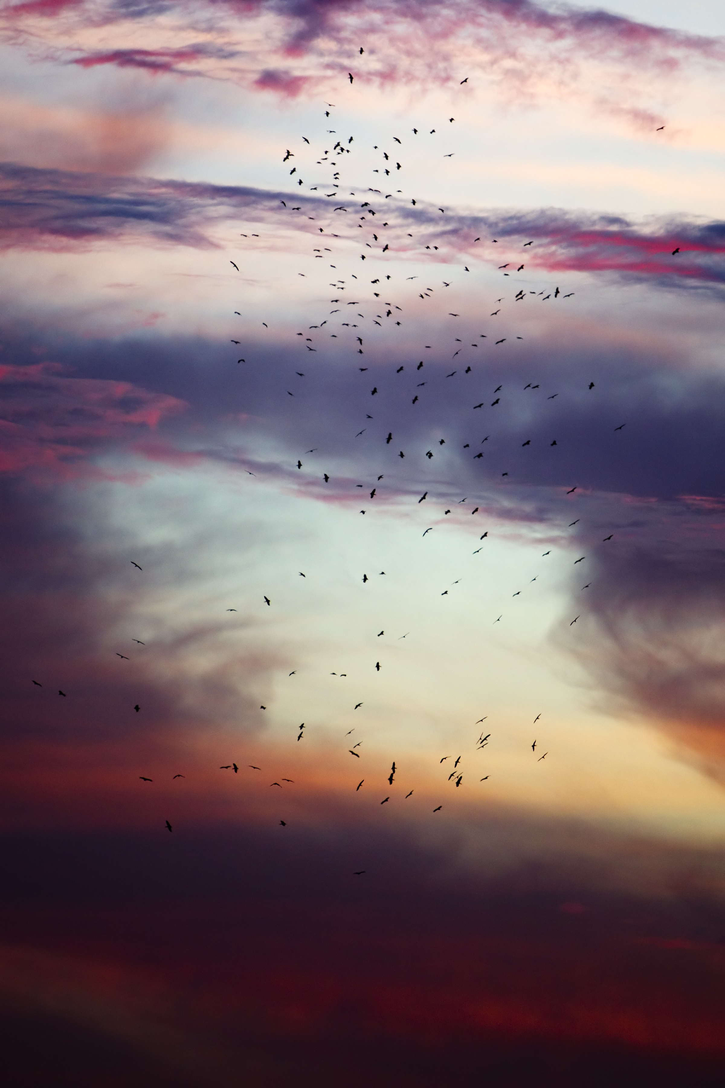 Abdim's storks getting sucked into a storm by strong winds in the Etosha National Park